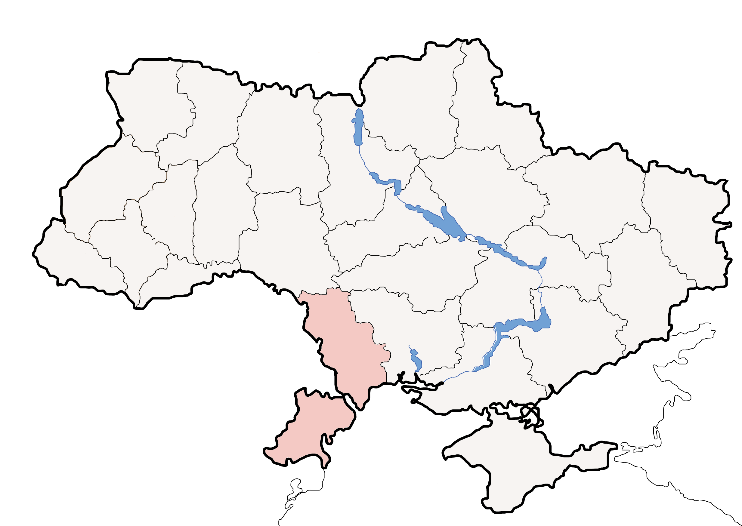 Political map of Ukraine, highlighting Odessa Oblast